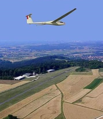 Airfield EDQX